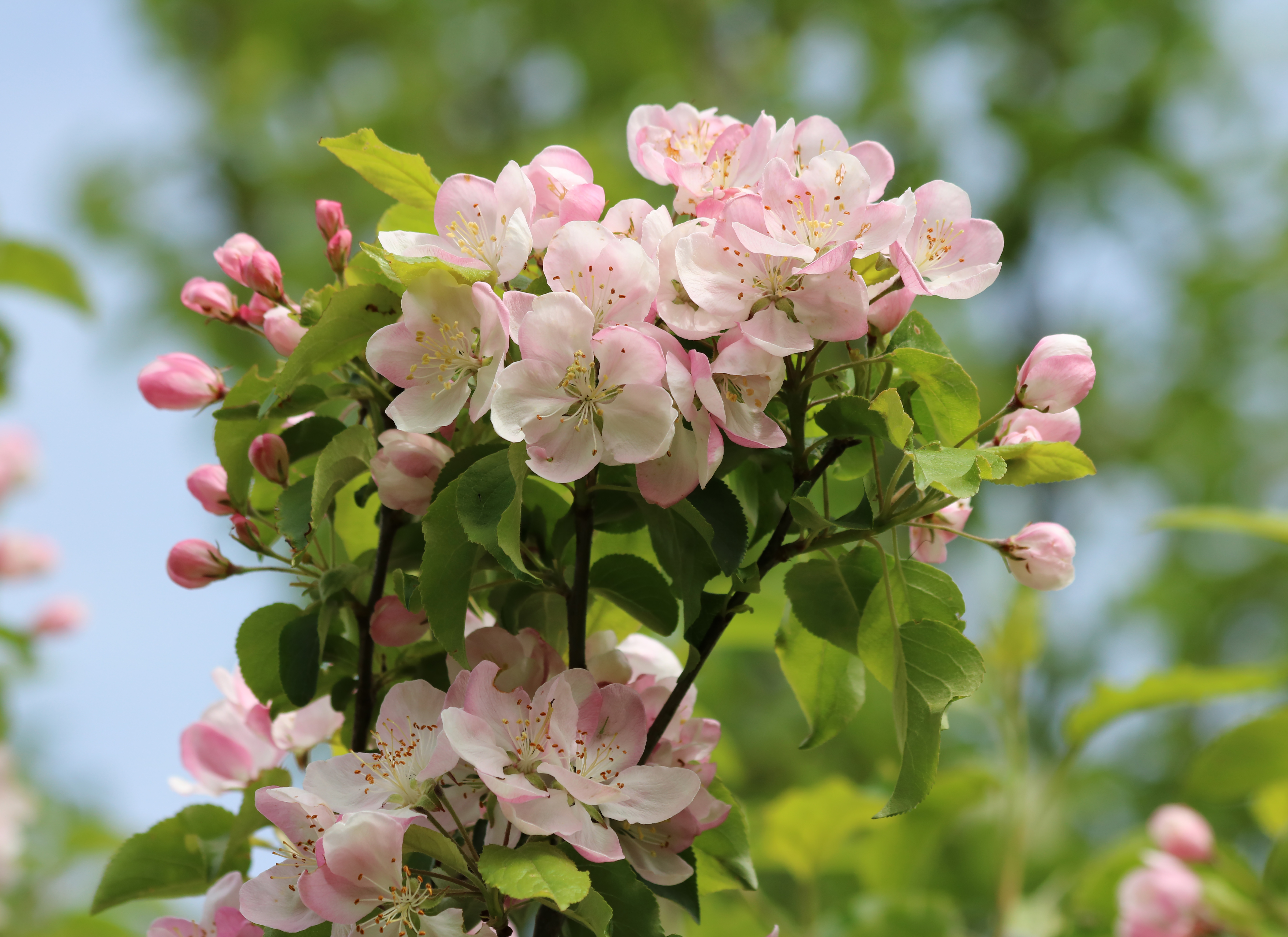 Blooming apple tree. Ukraine